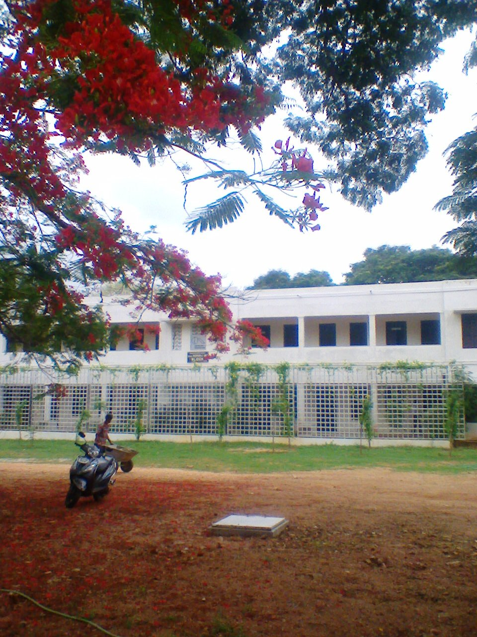 Cental for Architecture, near Court complex, Mysore.